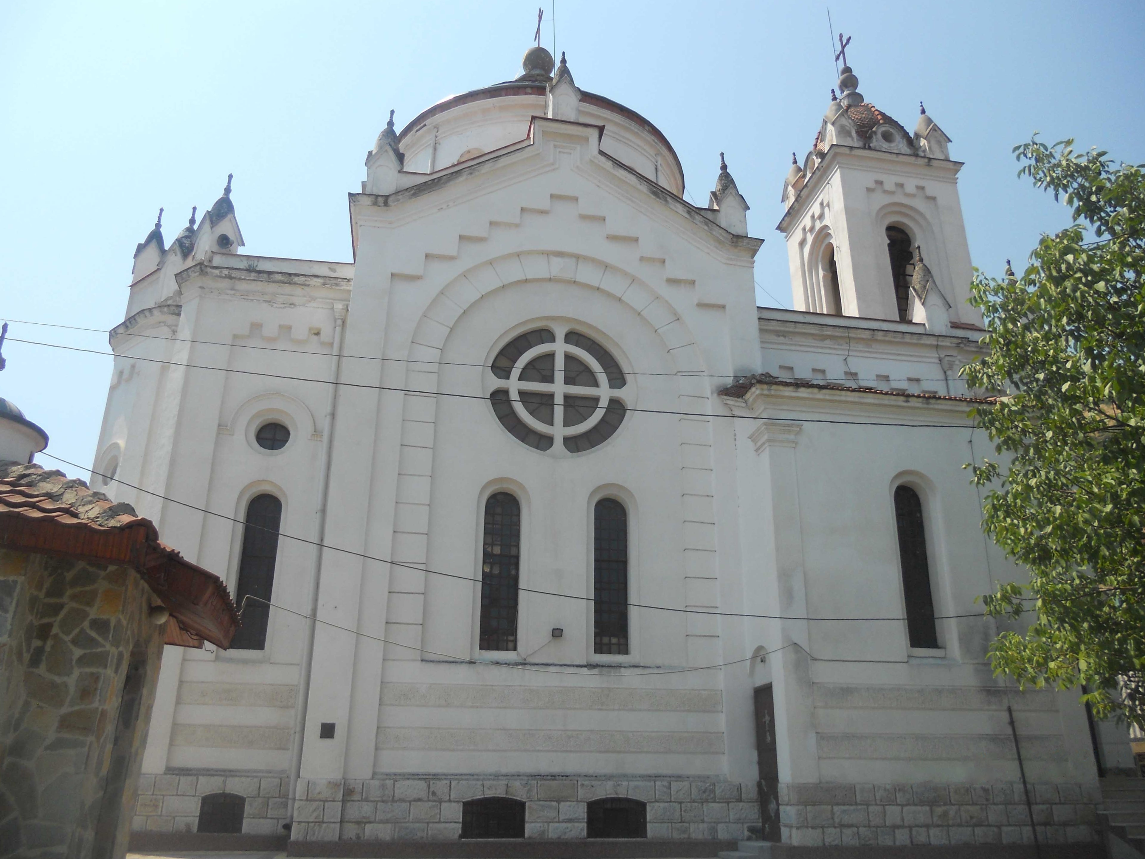 Sts. Cyril and Methodius Church Strumica